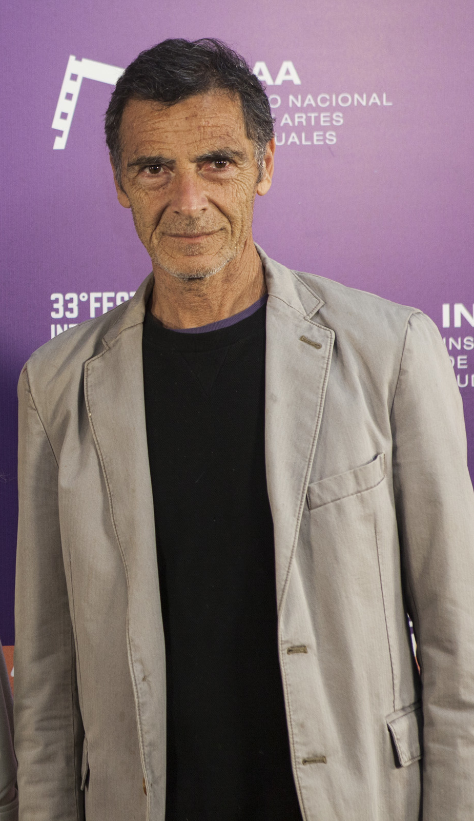 Mar del Plata, 10 de noviembre de 2018 - Se realizó la inauguración del 33 Festival Internacional de cine de Mar del Plata. Fotos: Mauro Rico / Secretaría de Cultura de la Nación.